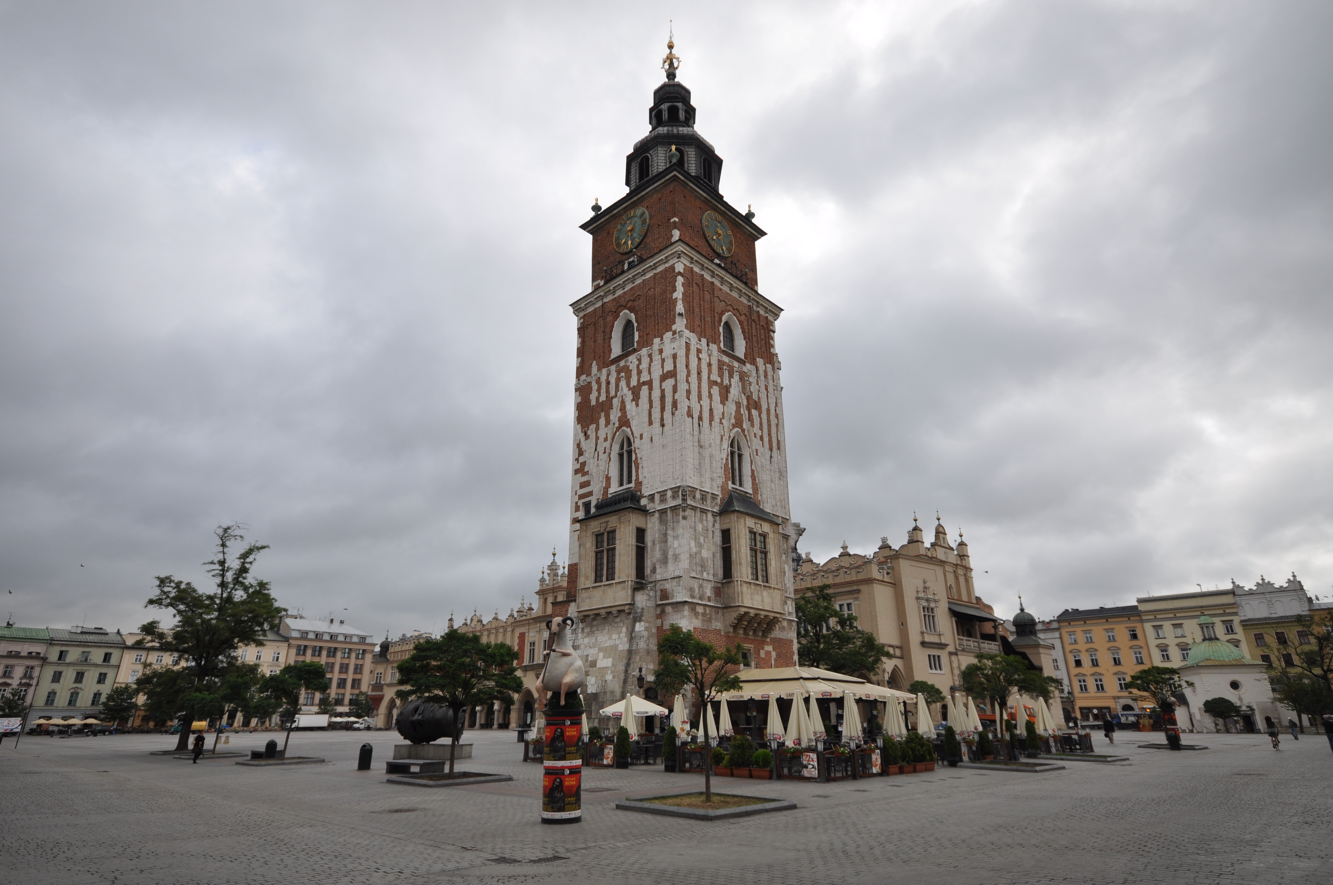 Town Hall Tower in Kraków, Poland (Polish: Wieża ratuszowa w Krakowie) is one of the main focal points of the Main Market Square in the Old Town district of Kraków. The Tower is the only remaining part of the old Town Hall (Ratusz, see painting, below) demolished in 1820 as part of the city plan to open up the Main Square. Its cellars once housed a city prison with a Medieval torture chamber. Built of stone and brick at the end of the 13th century, the massive Gothic tower of the early Town Hall stands 70 metres tall and leans just 55 centimetres, the result of a storm in 1703. The top floor of the tower with an observation deck is open to visitors. The original Gothic helmet adorning the tower was consumed by fire caused by a lightning in 1680. The ensuing reconstruction of the tower took place between 1683 and 1686. The work was directed by the royal architect Piotr Beber, who designed the new and imposing Baroque helmet, which survived only until 1783. At that time, the helmet began to crumble, and was replaced by a smaller structure (right) sponsored by Archbishop Kajetan Sołtyk. The entrance to the tower is guarded by a pair of stone lions carved at the beginning of the 19th century. They were brought to Kraków from the Classicist palace of the Morstin family in Pławowice during the renovations of 1961–1965, during which the bay windows on the second floor of the tower were incorrectly reconstructed by a local TV personality, architect Wiktor Zin. Over the entrance is the original Gothic portal with the city coat-of-arms and the emblem of Poland. For many years the basement beneath the tower has been used as the performance space called the Stage beneath the Town Hall of the renowned Teatr Ludowy. The tower serves as a Division of the Historical Museum of Kraków featuring permanent display of photographs of the Market Square Exhibition